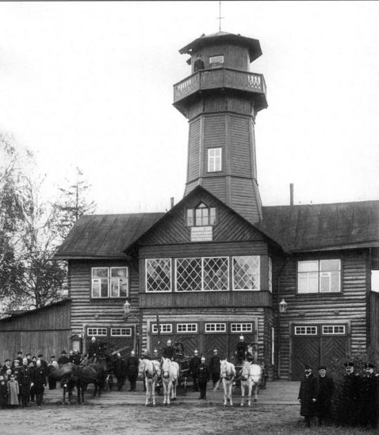 Fire station in Udelnaya Railway station